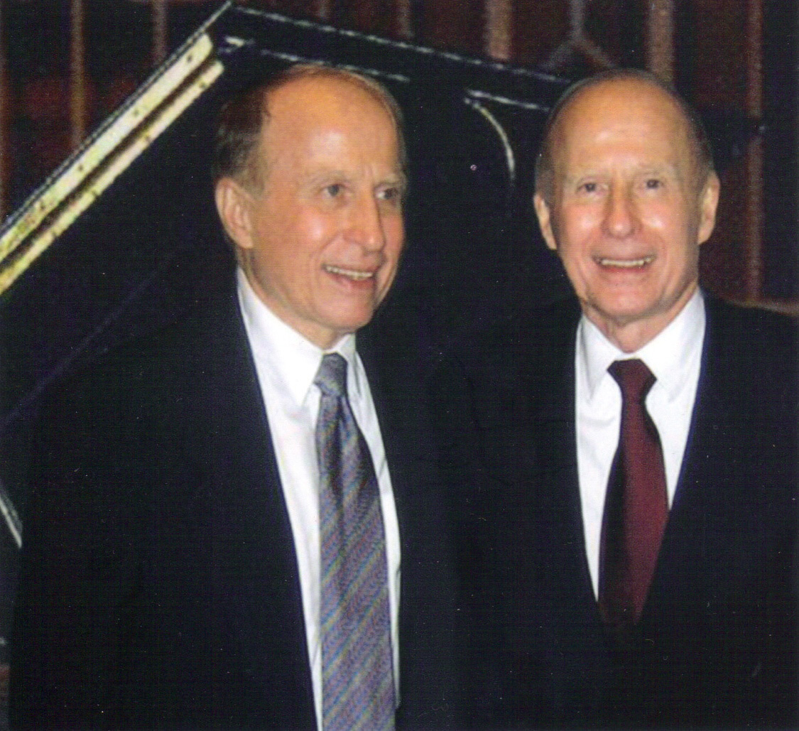 Richard and John Contiguglia at the National Gallery in London after a performance, November 25, 2008.